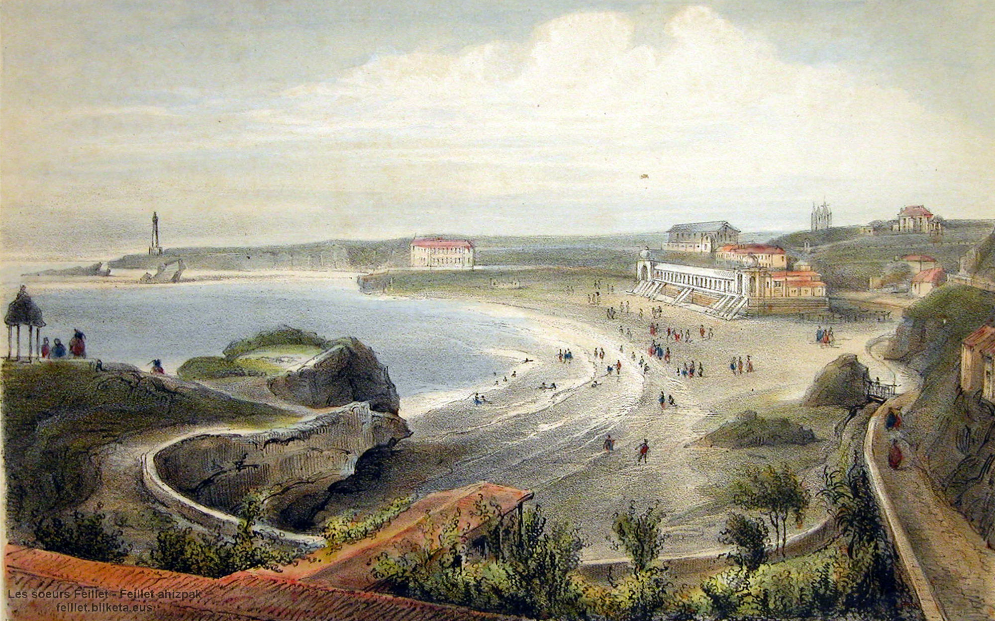 Blanche_Hennebutte-Feillet: vue de la Côte des Fous, des Bains Napoléon, de la Villa et du Phare, Lithographie, Musée basque et de l'Histoire de Bayonne